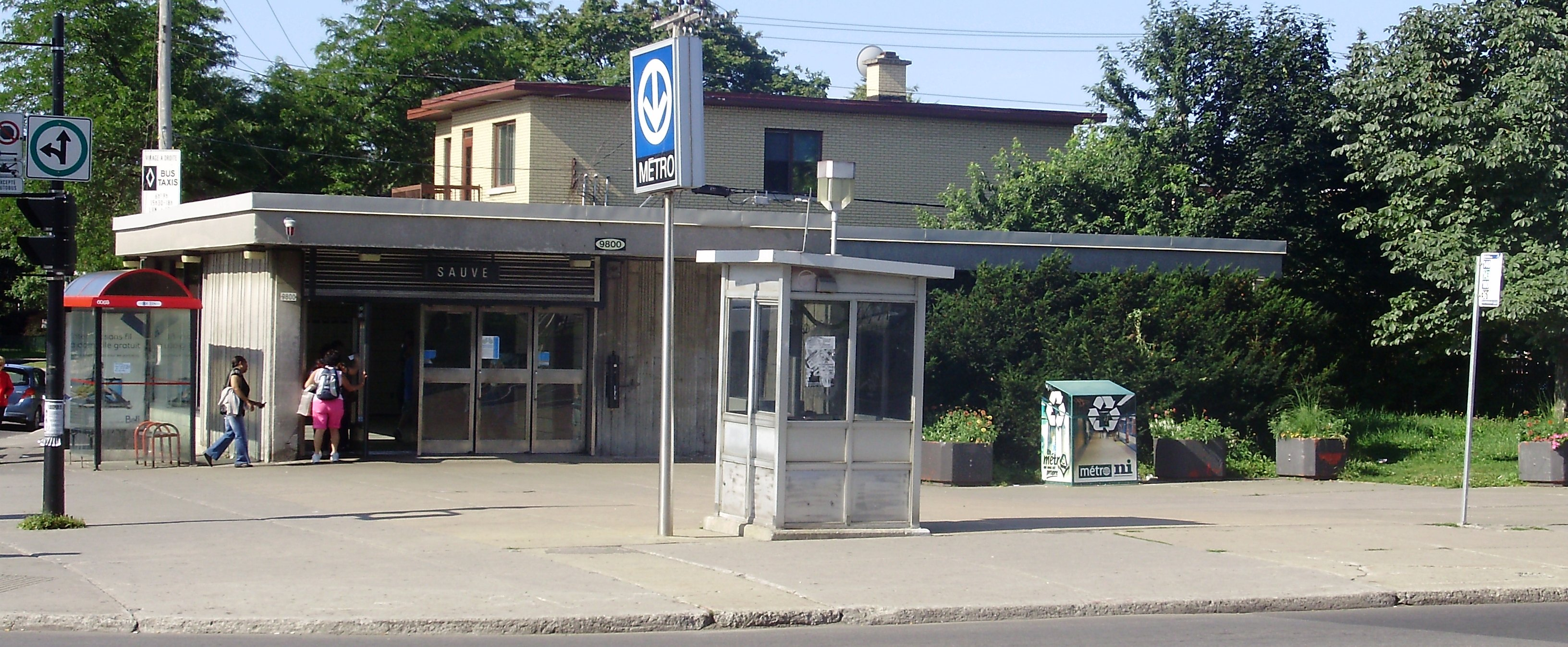 The Société de transport de Montréal's Sauvé metro station in Montreal, Quebec, Canada.